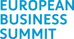 EBS_LOGO